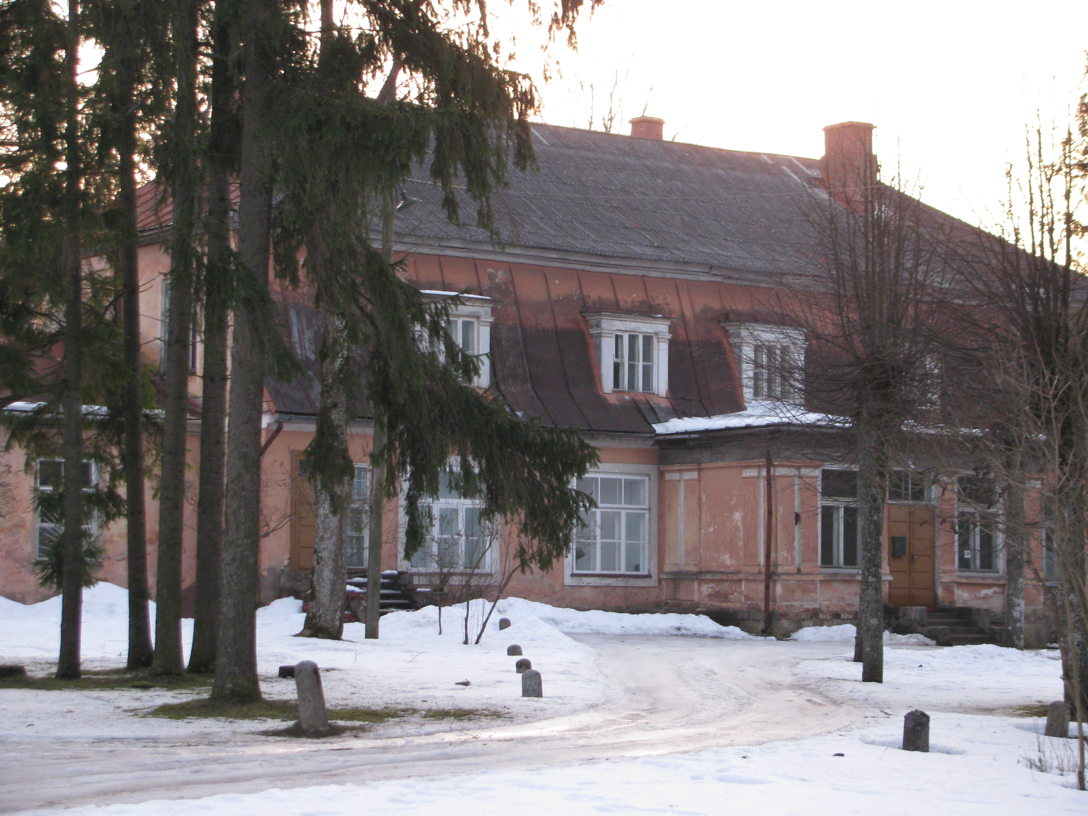 Dzīvojamā ēka, Cēsis, Piebalgas iela 19